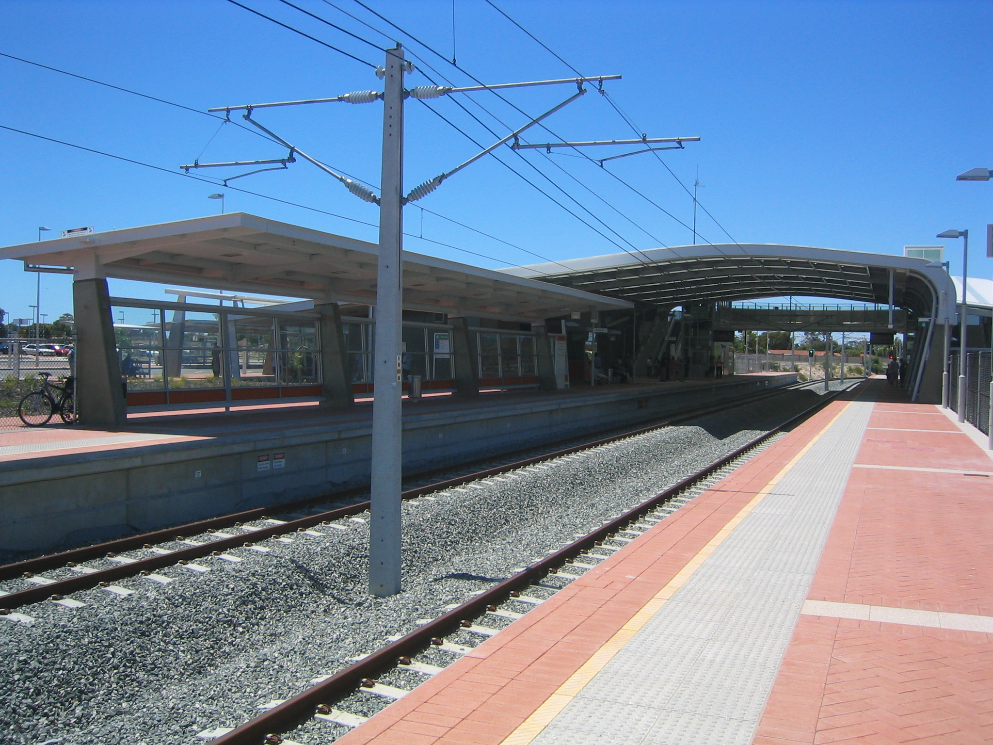 The platforms of Rockingham Station, taken from the platformm level of its station.